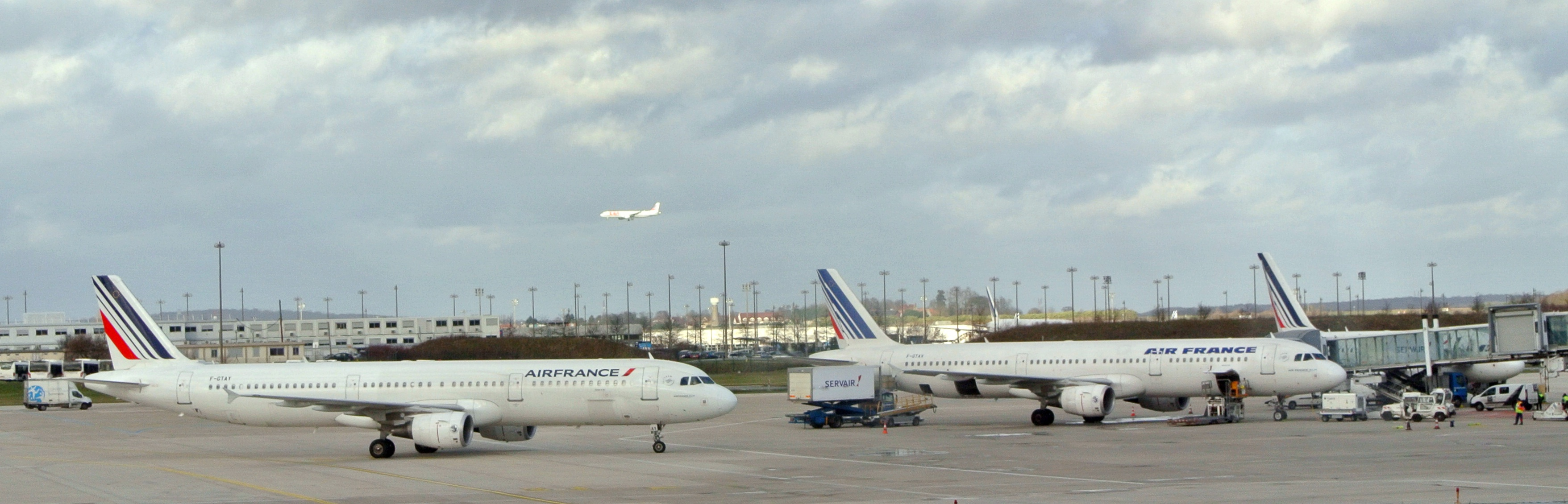 2 AIR FRANCE Airbus A321: (F-GTAV & F-GTAY) at Paris-Charles-de-Gaulle Airport. A CSA Czech Airlines plane can be seen landing in the background